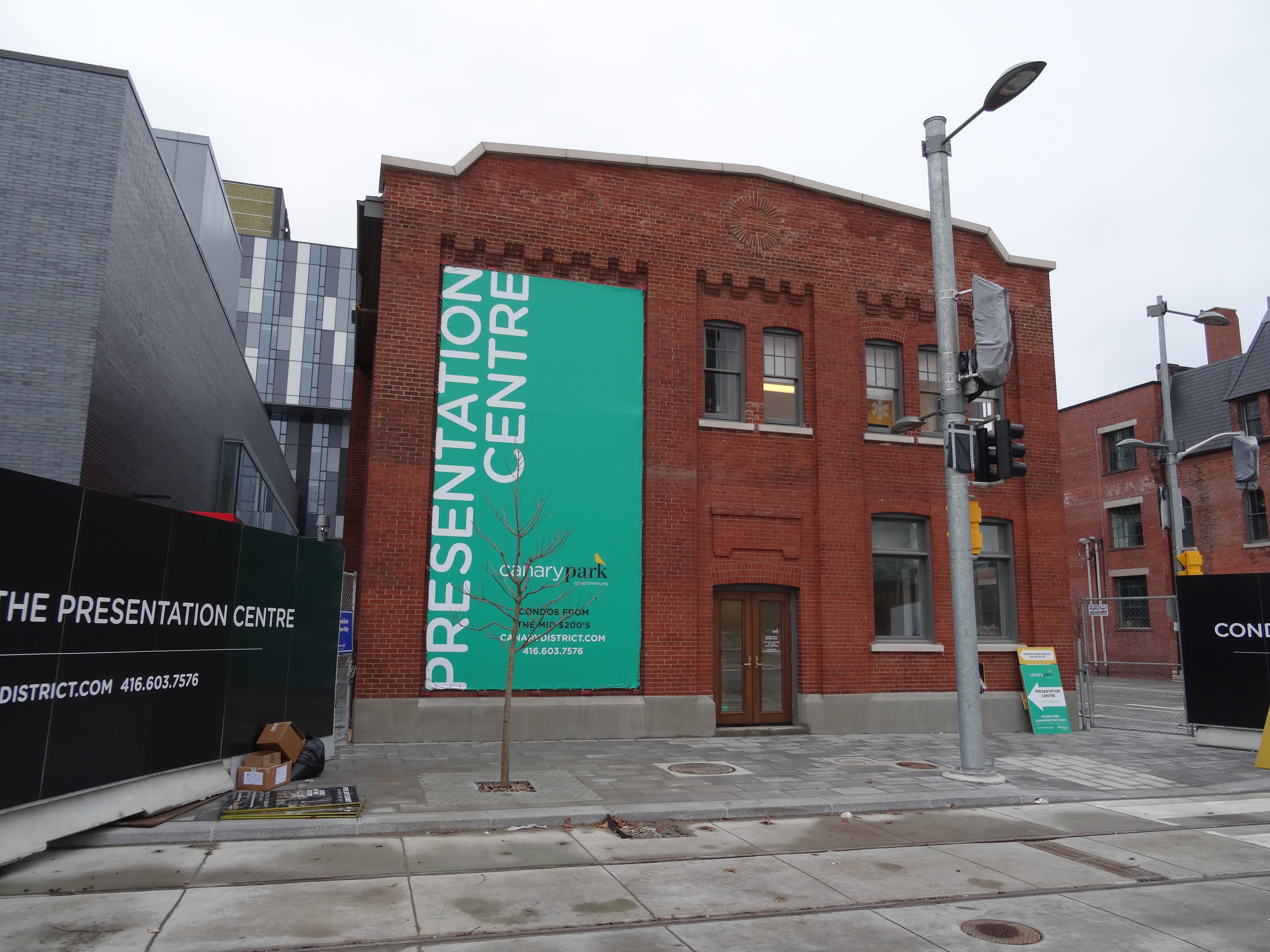 Former CN Railway Office Building